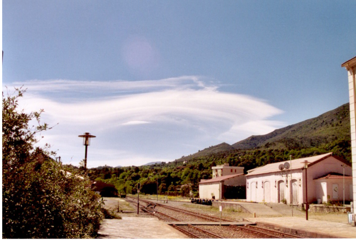 Orographic wave cloud seen above the train station in Corte, Haute-Corse, France